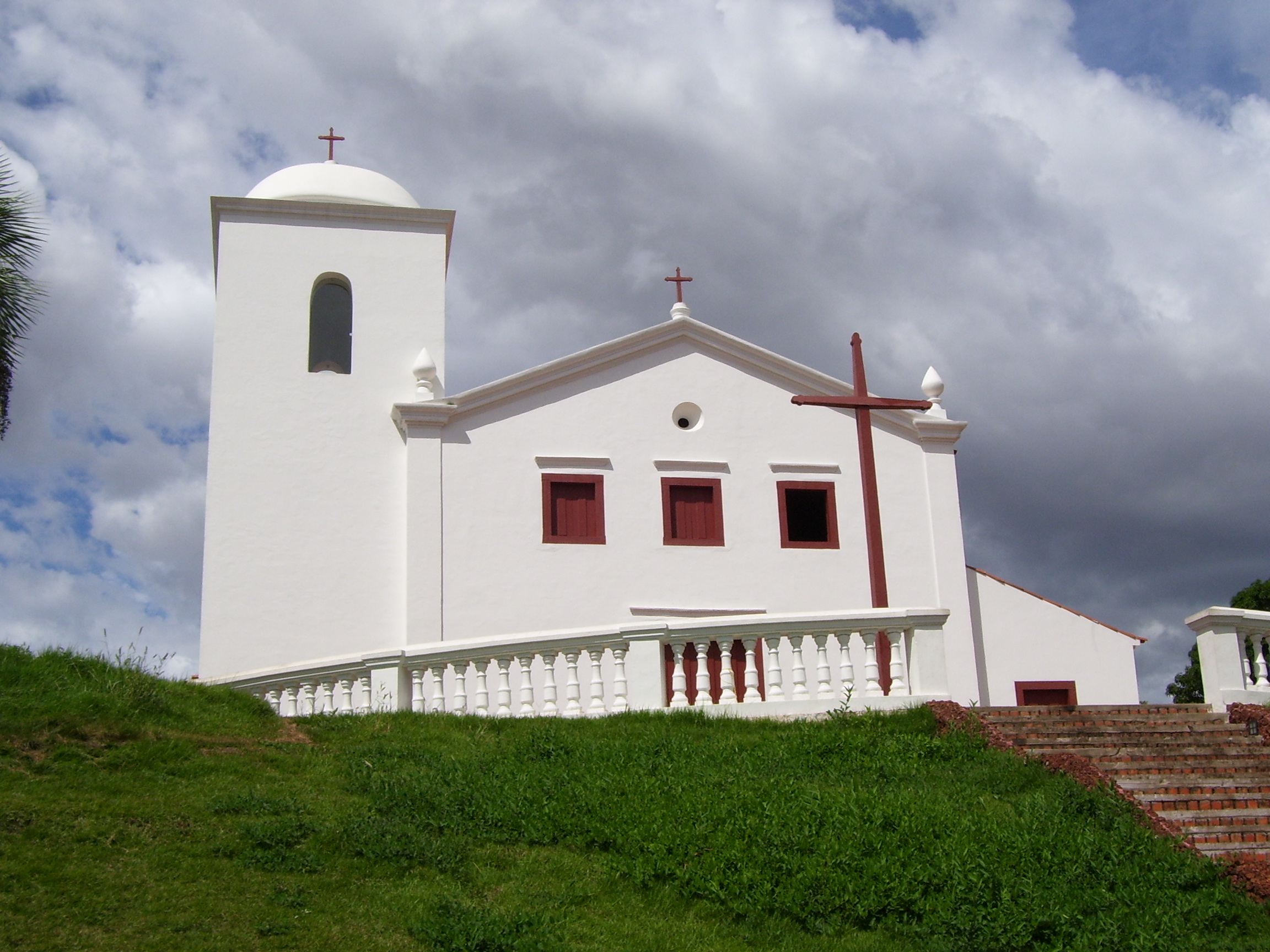 Church of Our Lady of the Rosary and the Saint Benedict's Chapel, Cuiabá, Mato Grosso, Brazil.